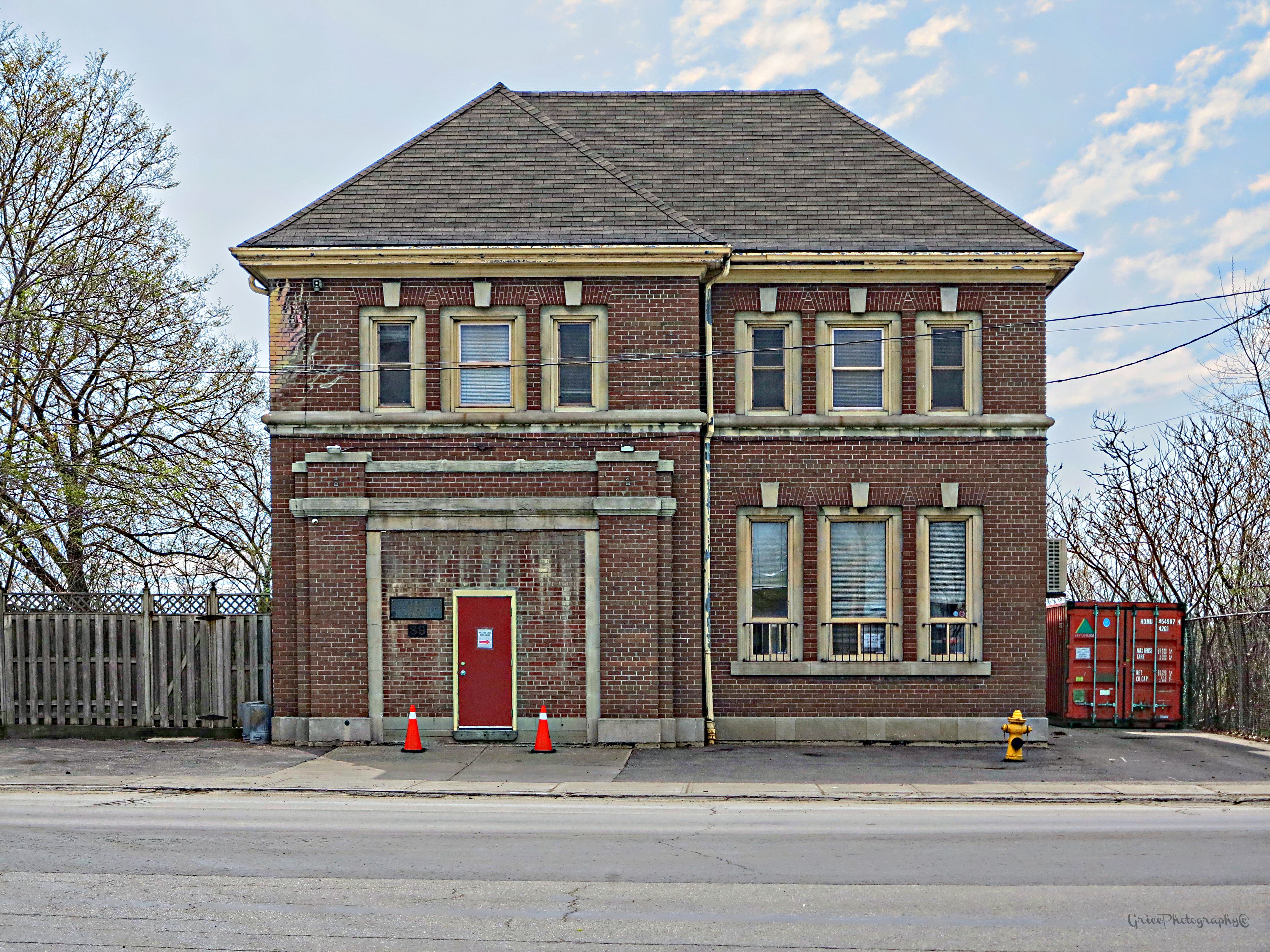 Old Fire Hall Commissinor St.Toronto